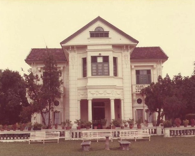 This is Cheong Yoke Choy's old mansion on 216 Jalan Pudu in Kuala Lumpur